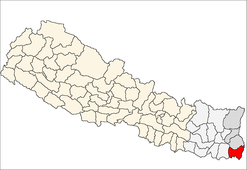 FrenchCarte de localisation dudistrict de Jhapa(wp-FR),au Népal (wp-FR).EnglishLocation map ofJhapa District(wp-EN),in Nepal (wp-EN).